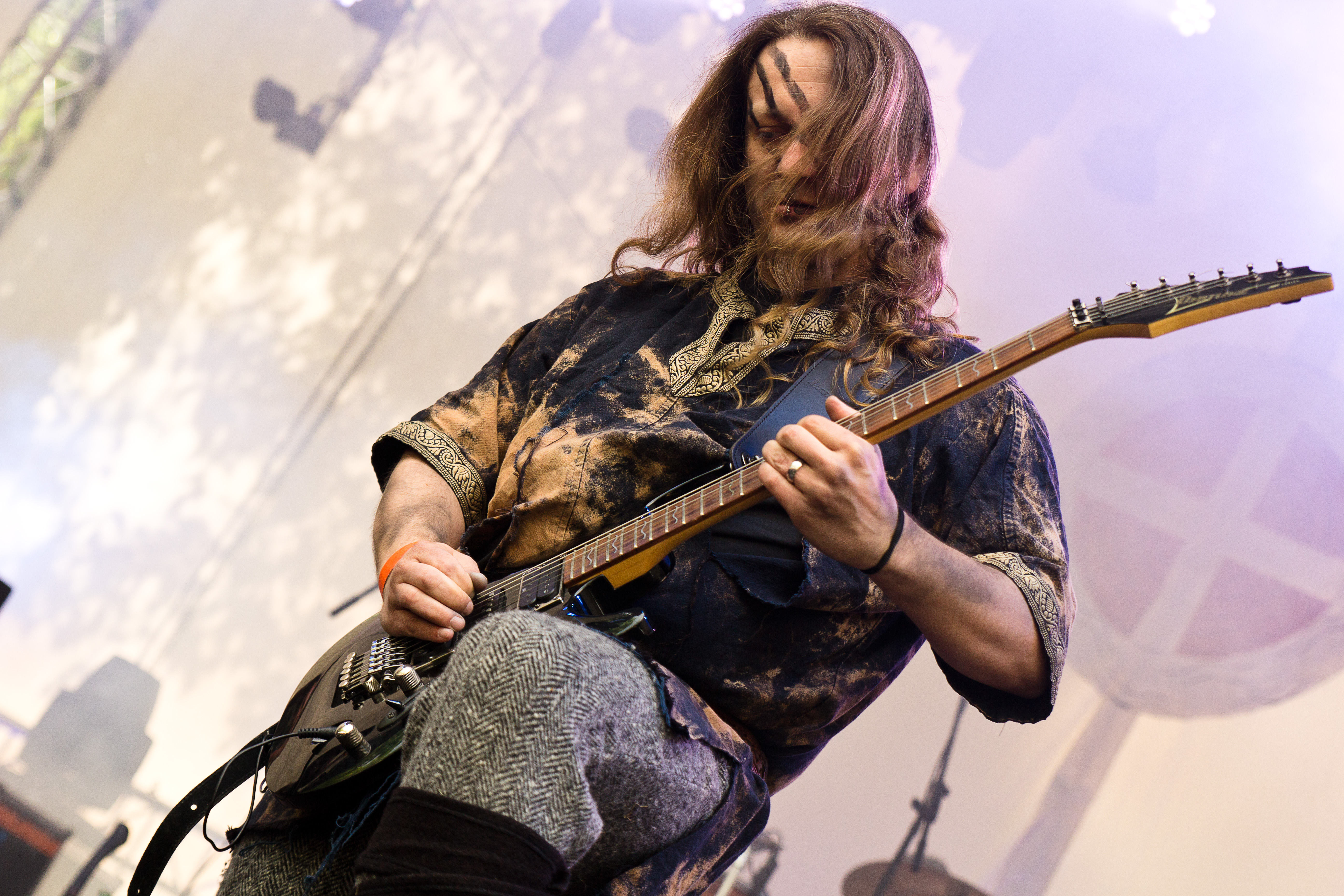 The German pagan metal band Gernotshagen at the 25. Wave-Gotik-Treffen 2016 in Leipzig/Germany.